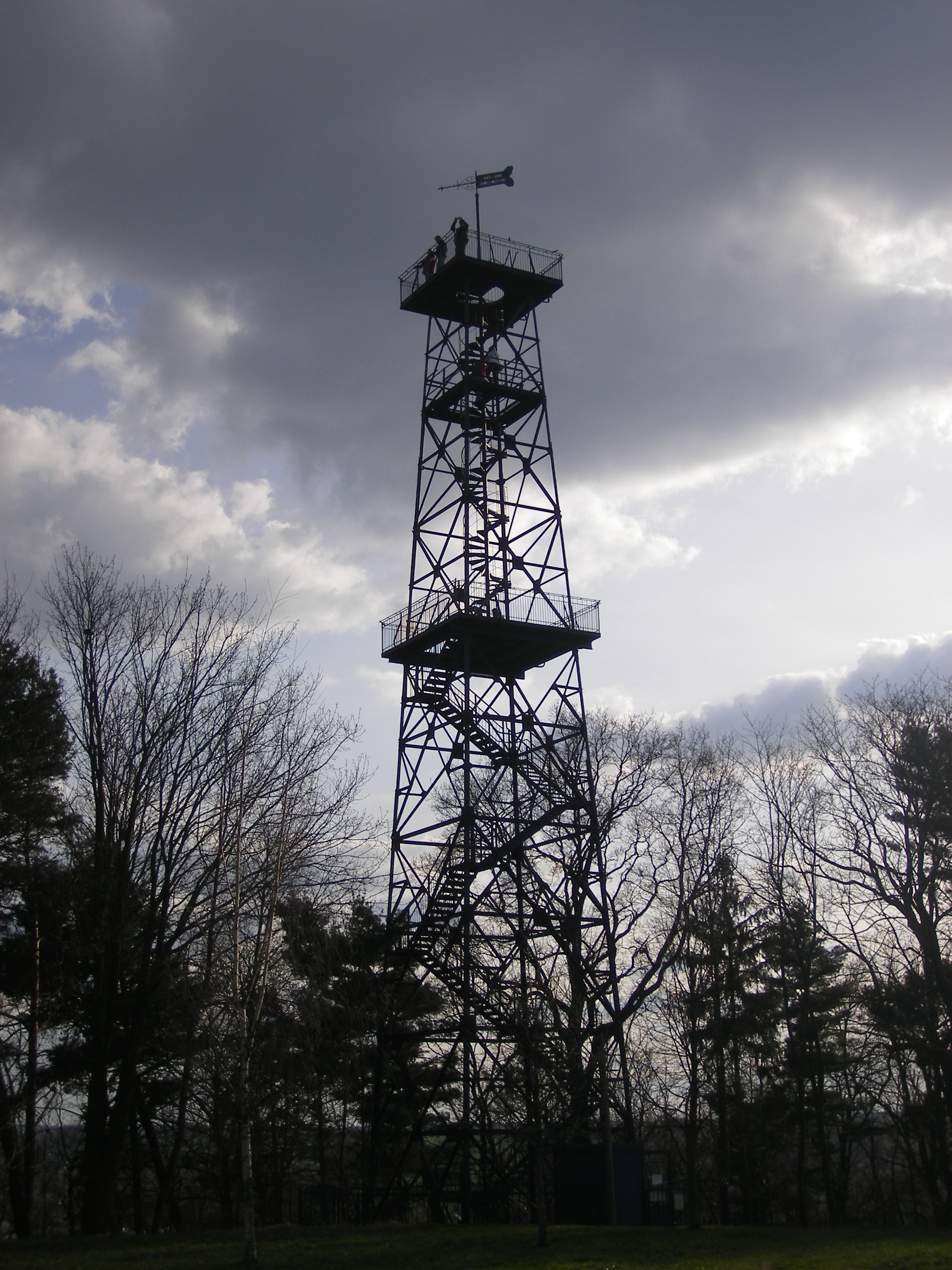 The picture shows the Ernst-Agnes-tower in Schmölln/Thuringia (Germany)